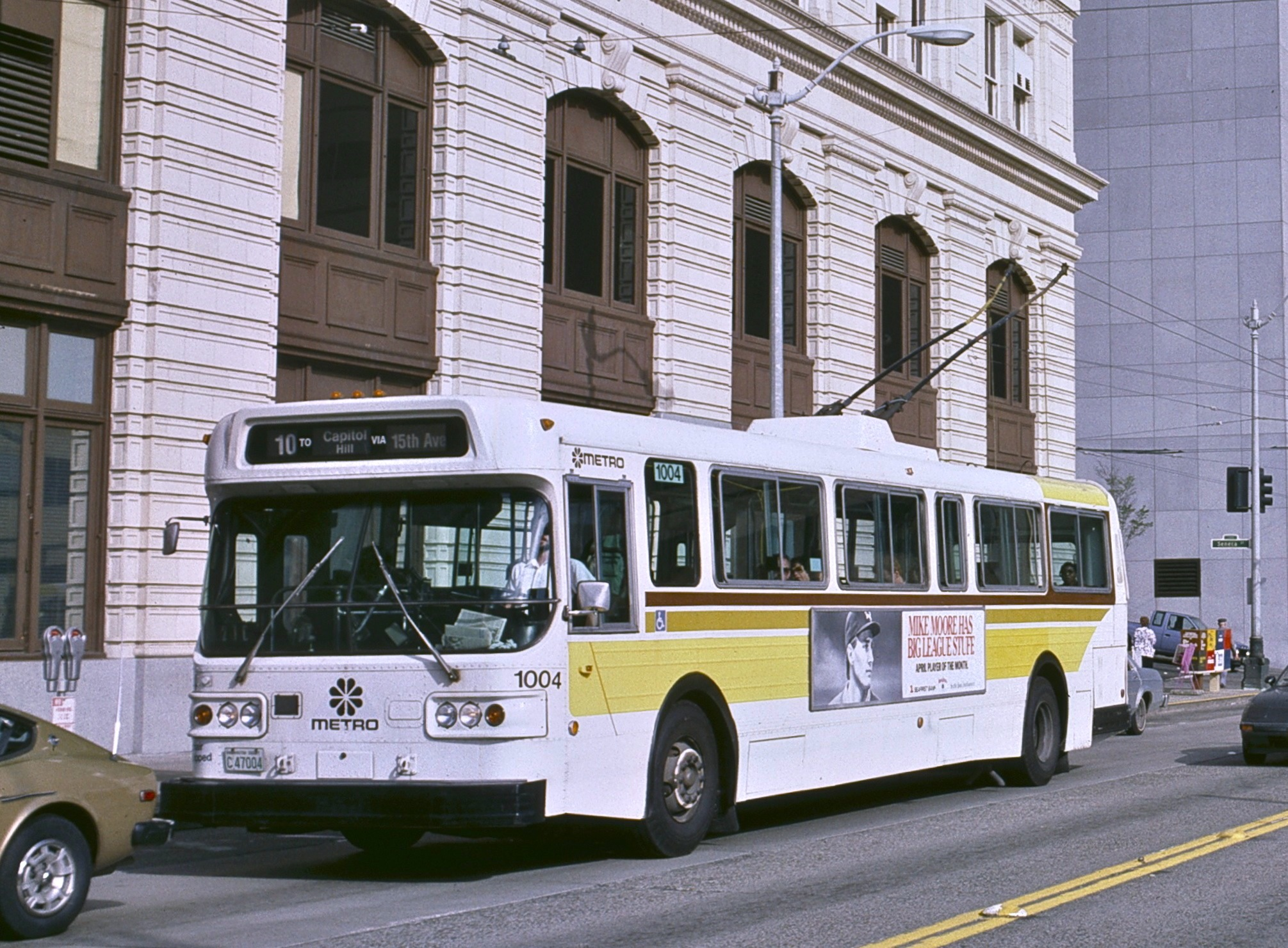 Seattle trolleybus 1004, a 1979 AM General 10240T, northbound on 3rd Avenue between Seneca and University streets, in downtown. It is in service on route 10 (E. 15th Avenue), to the Capitol Hill neighborhood.